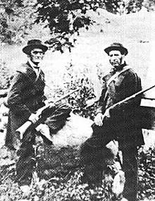 Canadian Home-Guard defending against Fenians in 1870. William TenEyck and Asa Westover.